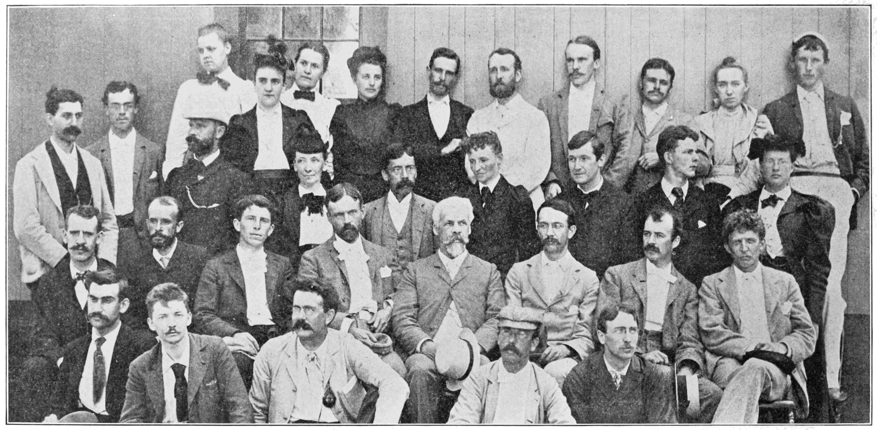 Group photo of researchers of the Marine Biology laboratory. First row, seated on ground (left to right): Howard S. Erode, Arnold Graf, John P. Munson, Robert P. Bigelow, Gary N. Calkins. Second row, seated (left to right): W. H. Dudley, Walter M. Rankin, A. D. Mead, Edmund B. Wilson, C. O. Whitman, E. G. Conklin, Hermon C. Bumpus, F. S. Lee. Third row, standing (left to right): - —(?), Pierre A. Fish, Cornelia M. Clapp, Sho Wakase, Katharine Foot, A. D. Morrill, Joseph C. Thompson (?), Esther F. Byrnes. Back row, standing (left to right): M. A. Brannon, Bradley M. Davis, Clara Langenbeck, S. Emma Keith, Margaret Lewis, Louise B. Wallace, J. L." Kellogg, George W. Field, Frank R. Lillie, O. S. Strong, Mary M. Sturges, John McCrae.